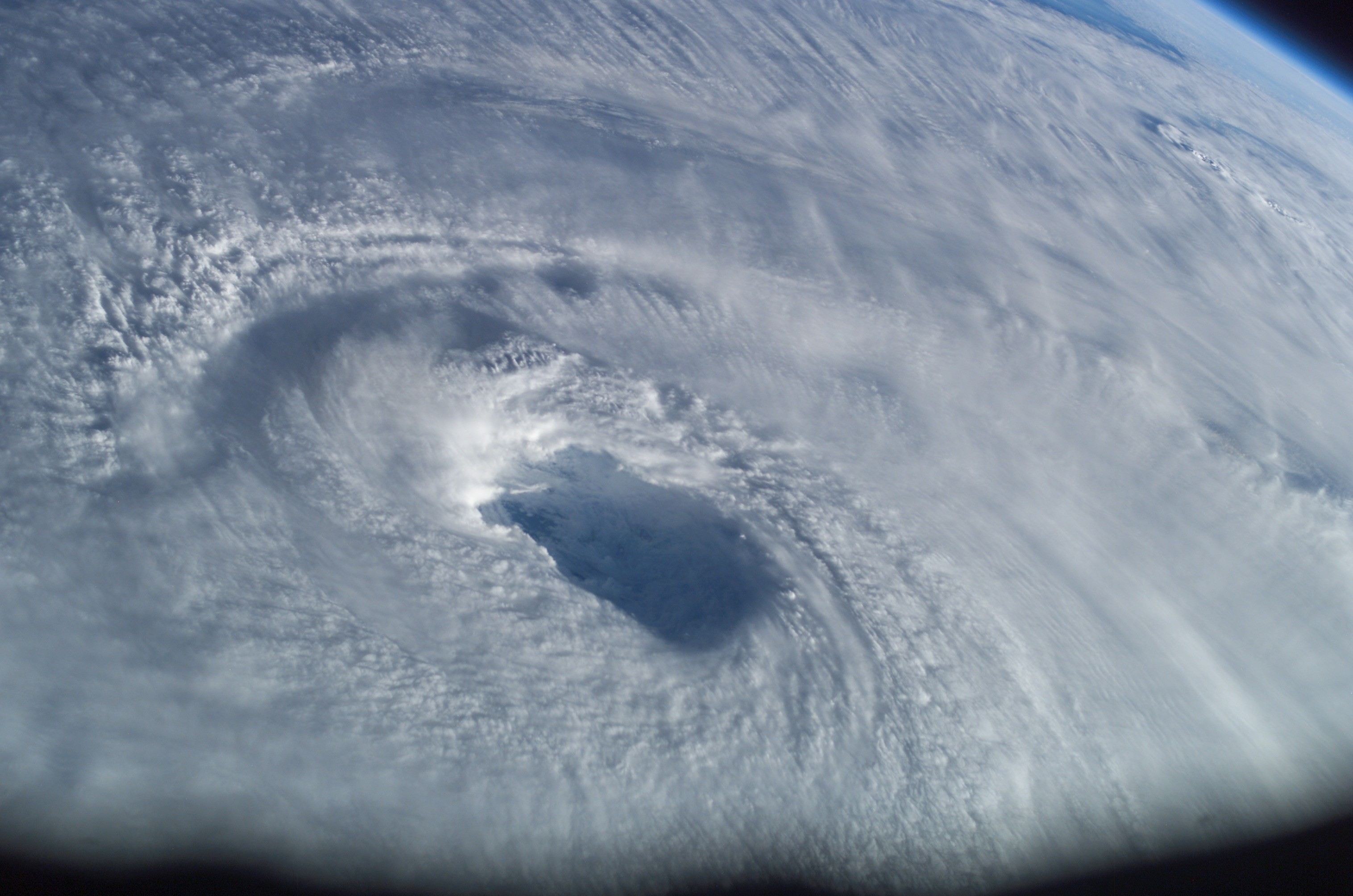 Astronaut Ed Lu captured this image of the eye of Hurricane Isabel as he passed overhead in the International Space Station on September 15, 2003. The storm had weakened somewhat, but still maintained its status as a Category 4 hurricane.